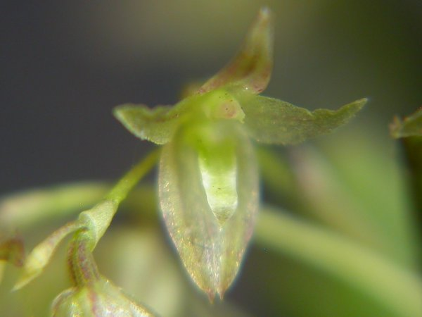 Arthrosia myrticola